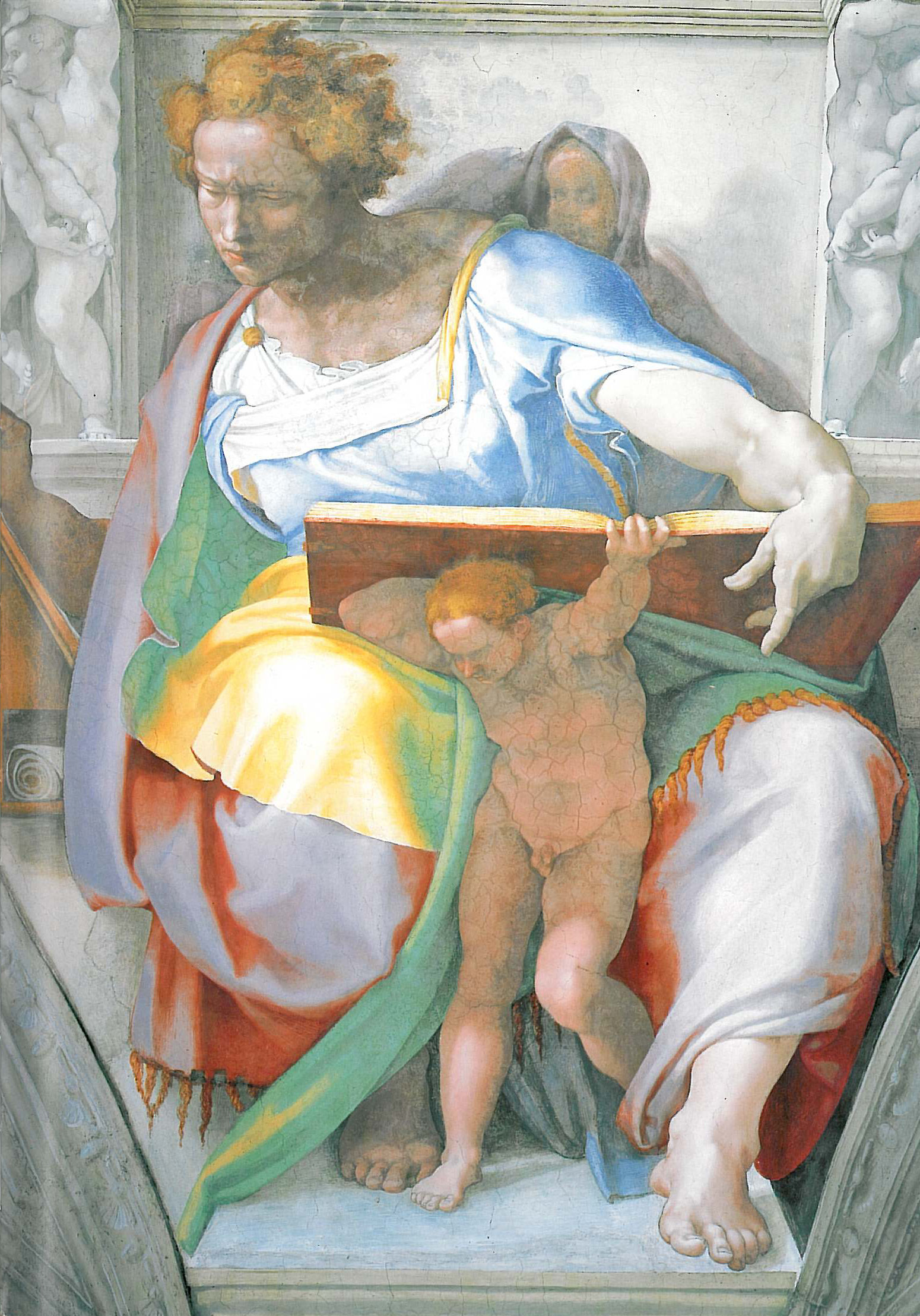 fresco painted by Michelangelo and his assistants for the Sistine Chapel in the Vatican between 1508 to 1512